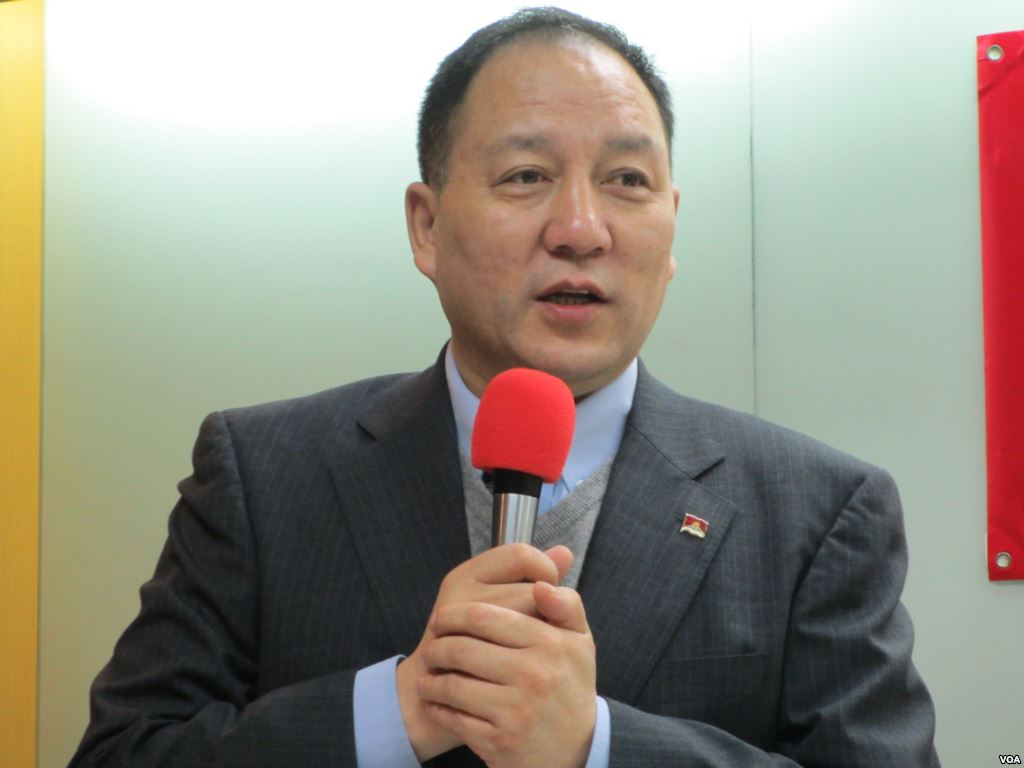 Dawa Tsering speaking at a Tibetan seminar in 2013